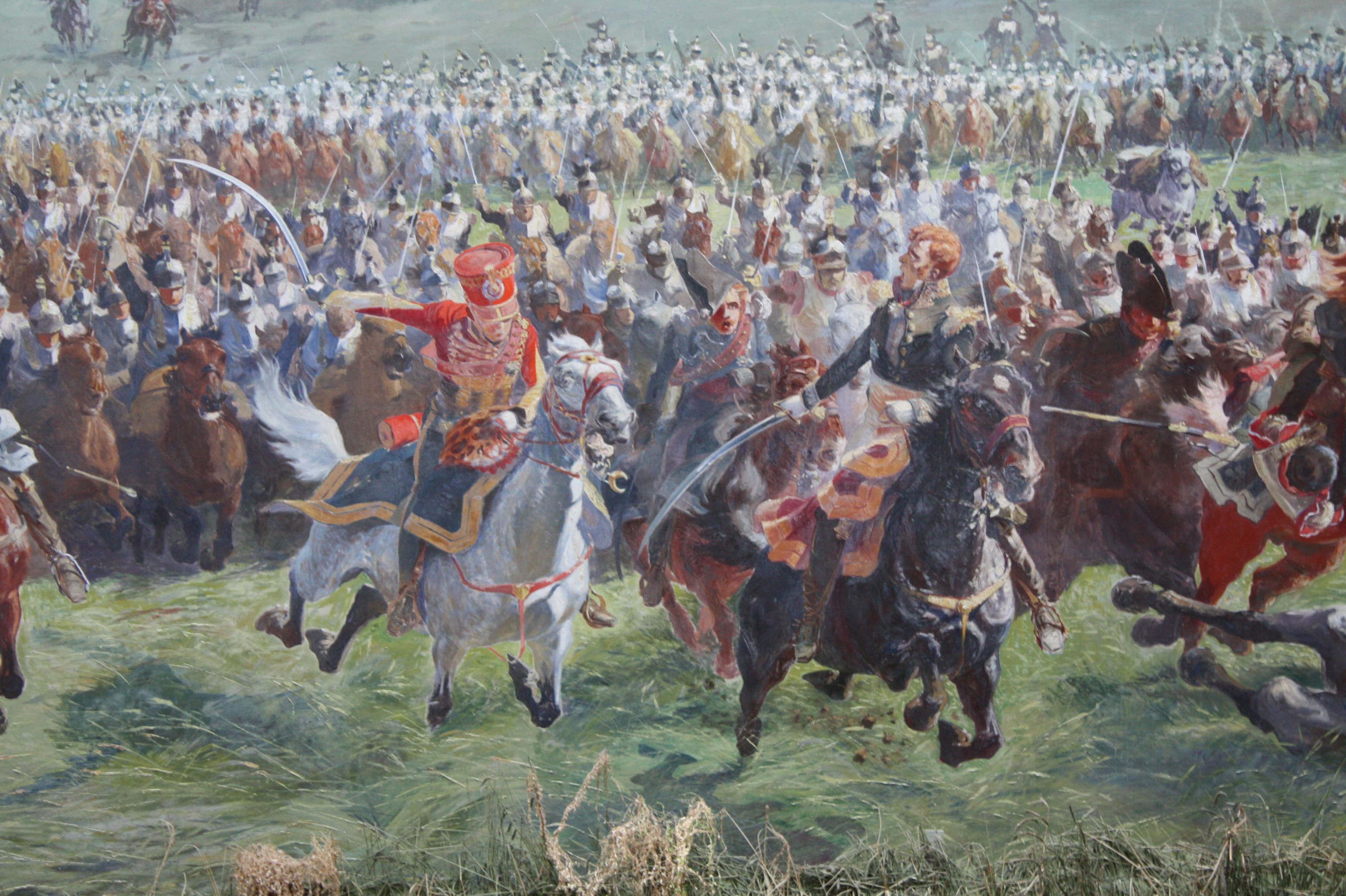 Marshall Ney and his staff leading the cavalry charge at Waterloo